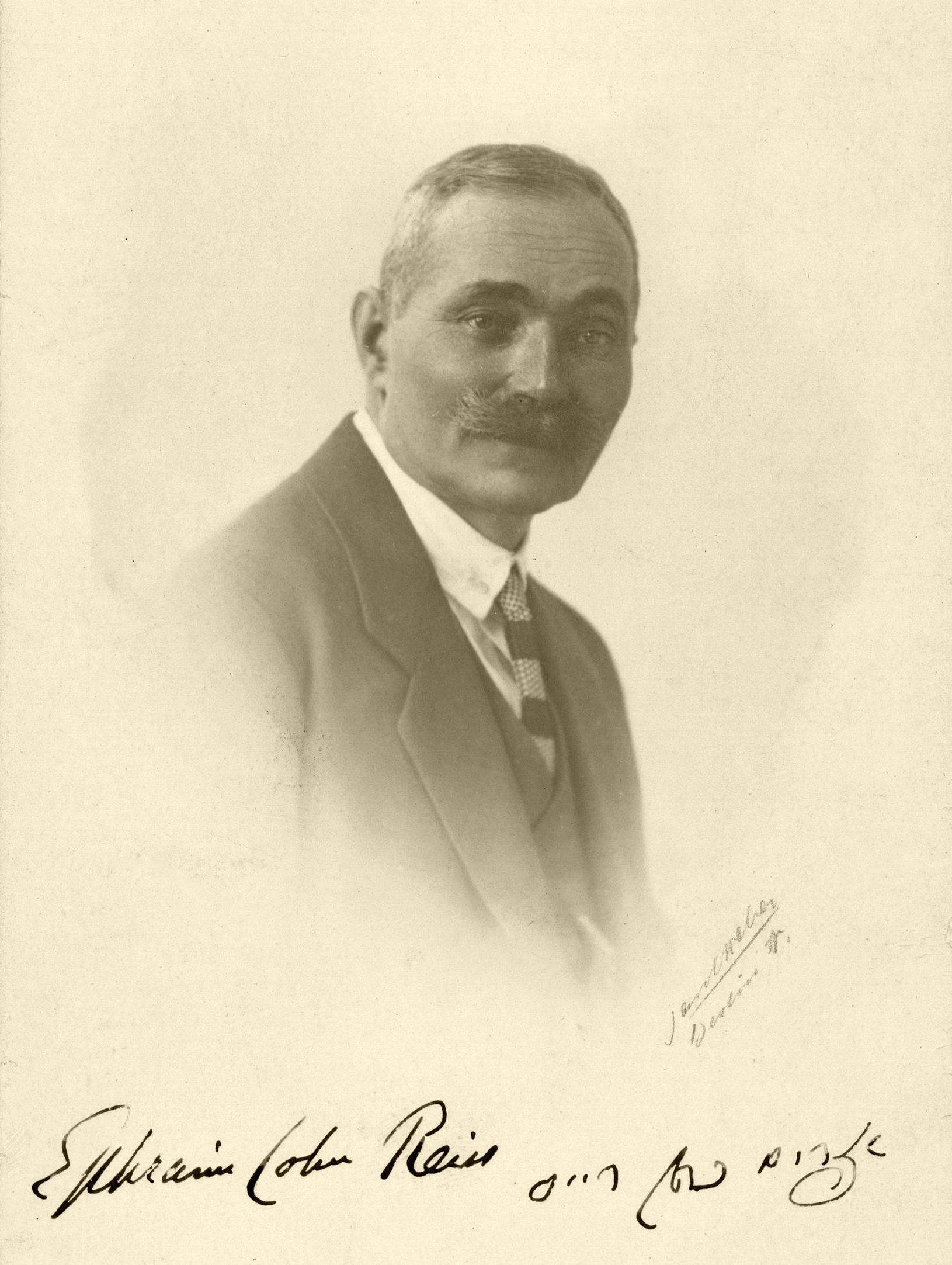 Picture of Ephraim Cohn-Reiss